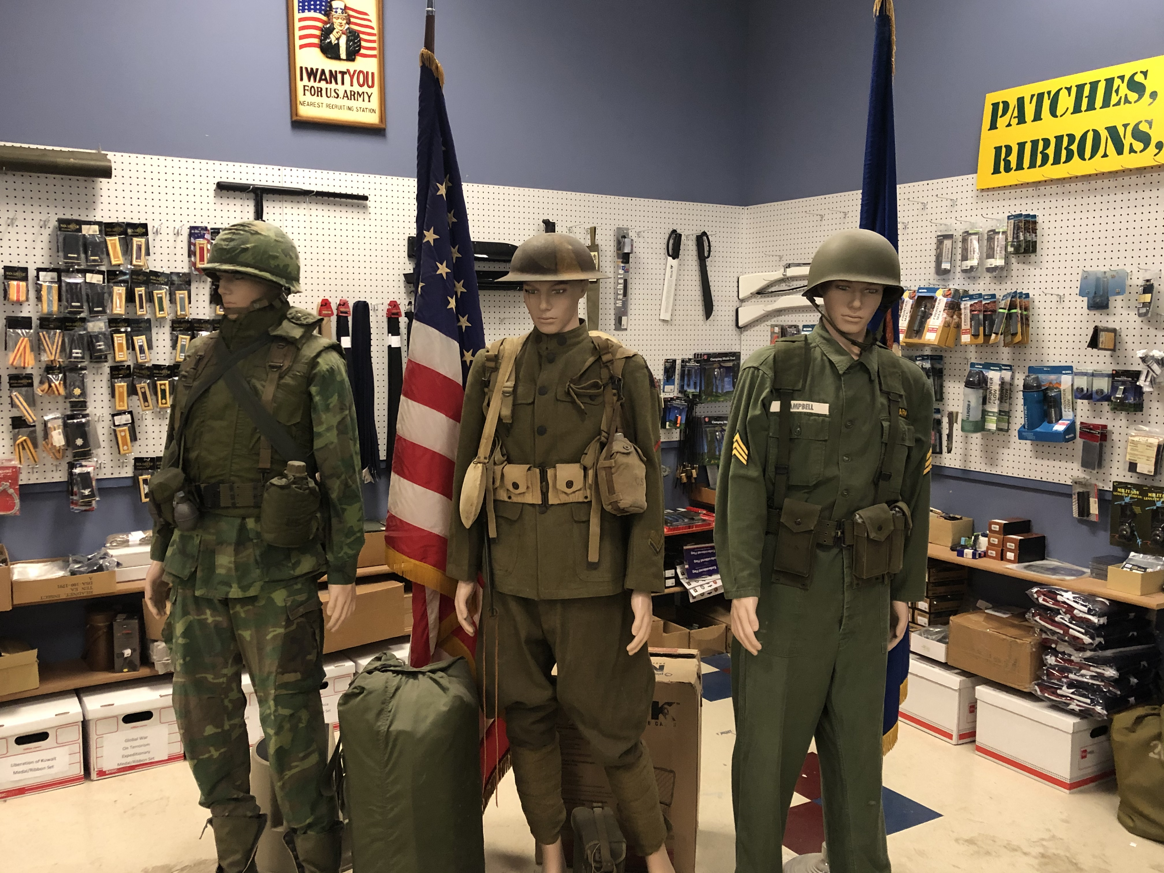 Mannequins dressed up in Authentic Military Surplus at Army Navy Warehouse in Grand Prairie.